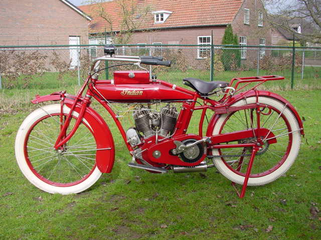 US Indian Powerplus motorcycle from 1916